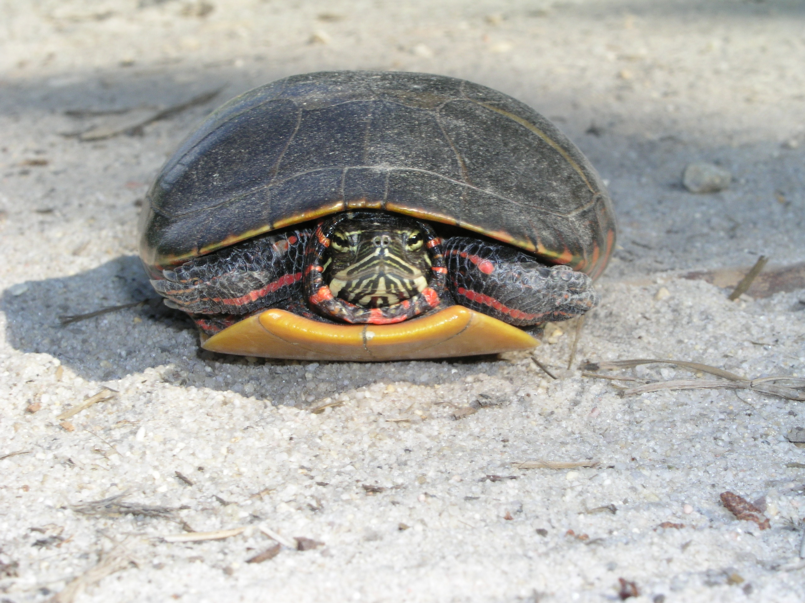 come on out I ain't gonna hurt ya. Of course I had to pick him up off the road so he didn't get squished. near Wharton State forest. I think this is the Painted Turtle (Chrysemys picta). B kimmel 12:57, 22 October 2005 (UTC)